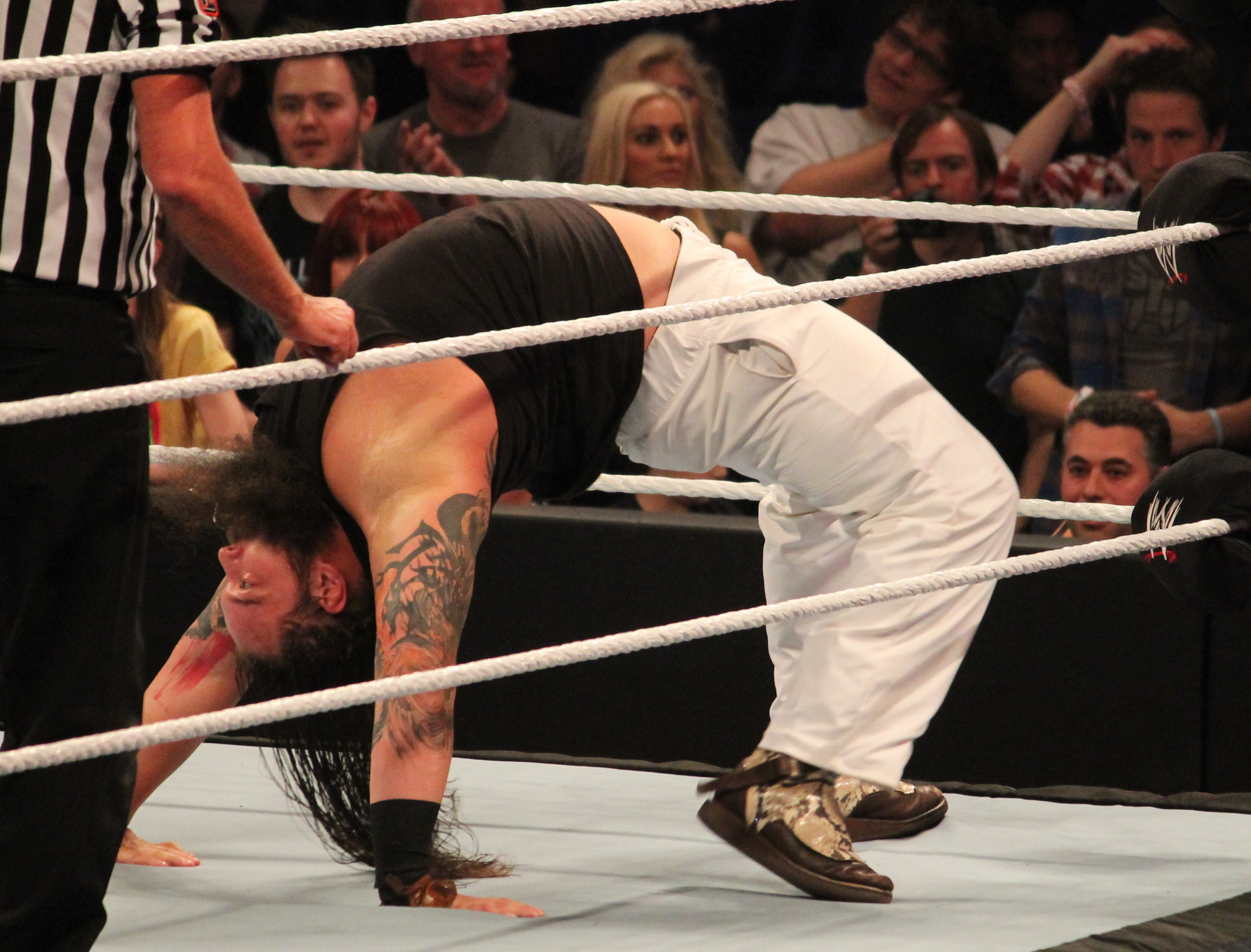 Bray Wyatt learns how to walk at the post-WrestleMania Raw on 7 April 2014 in New Orleans, Louisiana.